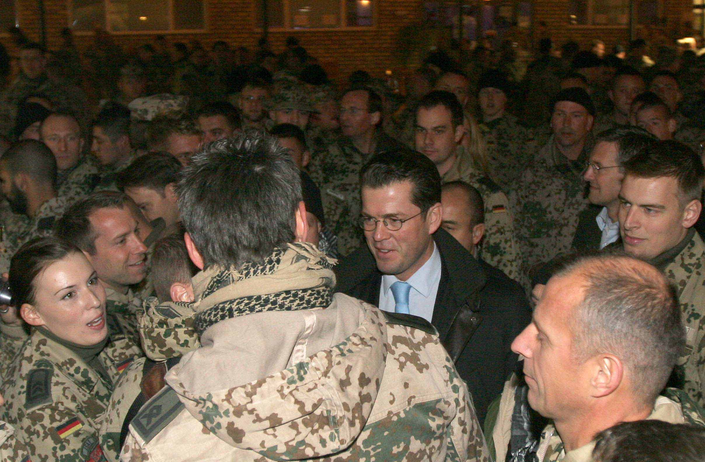 KUNDUZ, Afghanistan-German Minister of Defence, Karl-Theodor Freiherr zu Guttenberg visited the provincial reconstruction team in Kunduz Province with five members of parliament on December 11, 2009. Minister zu Guttenberg gave a speech to soldiers stating that a decision concerning Germany's ISAF contingent would be reached after next month's London conference on Afghanistan. (Photo by ISAF Public Affairs)